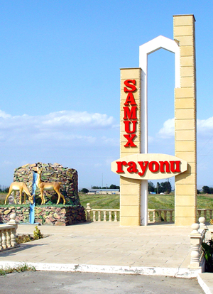 Samukh District of Azerbaijan Republic